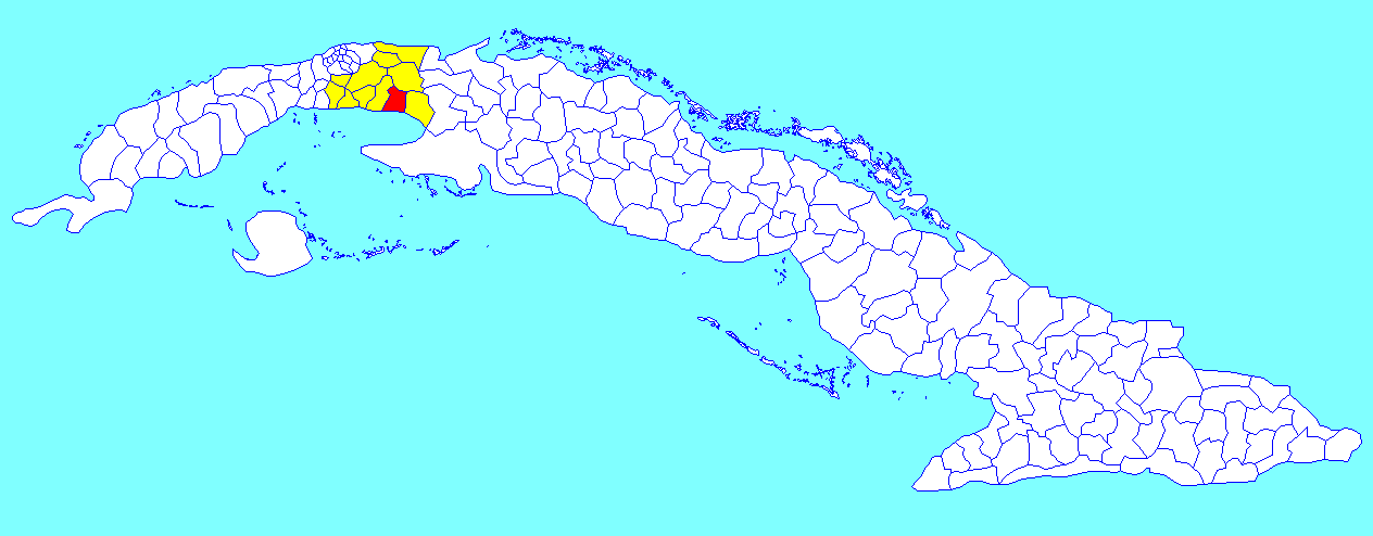 A map of the municipality of San Nicolás de Bari -or San Nicolás- (shown in red) within the Province of Mayabeque (yellow) and Cuba.